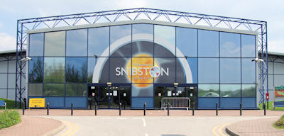 Snibston front entrance